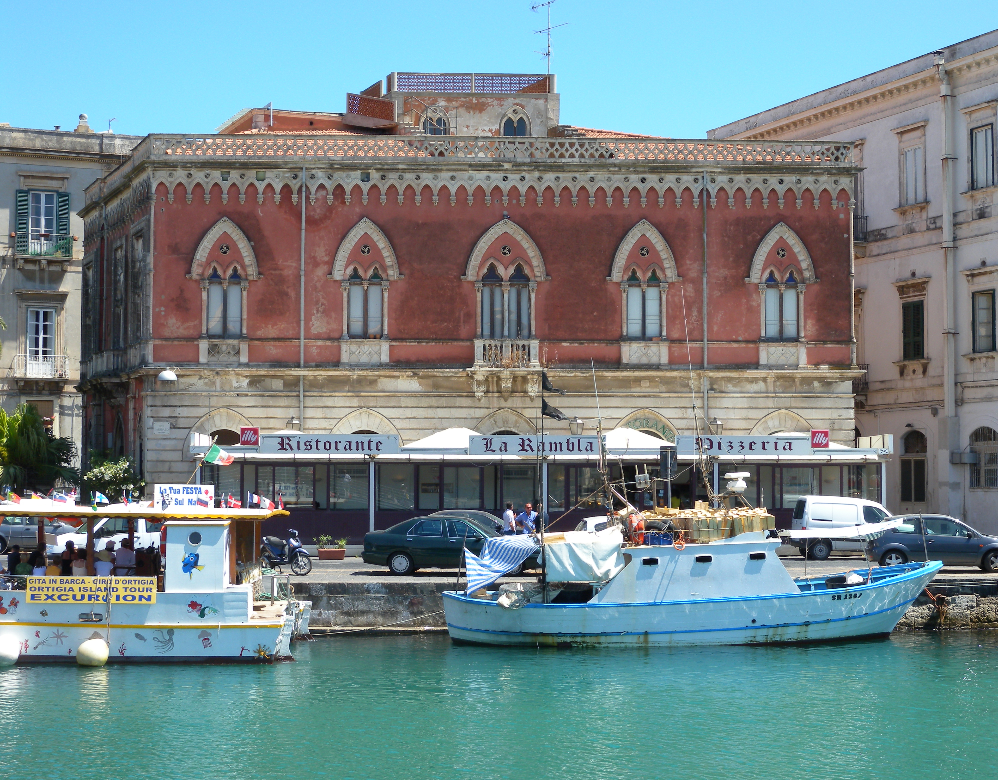 Port of Syracuse